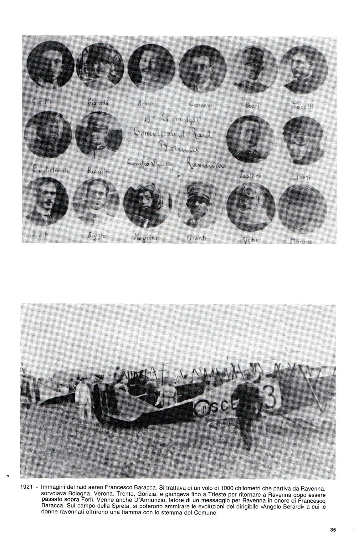 Pilots participating at "Coppa Baracca" and a foto of the airfield Aircraft are Ansaldo SVA's